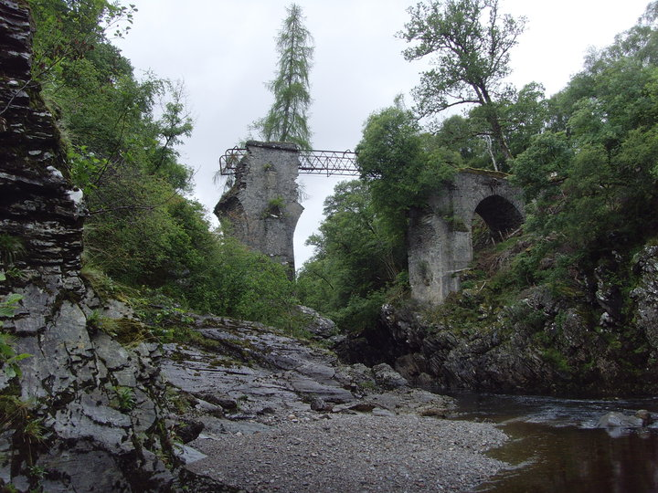 General Wade's "Highbridge" near Spean Bridge